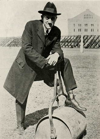 Photograph of Ewald O. Stiehm